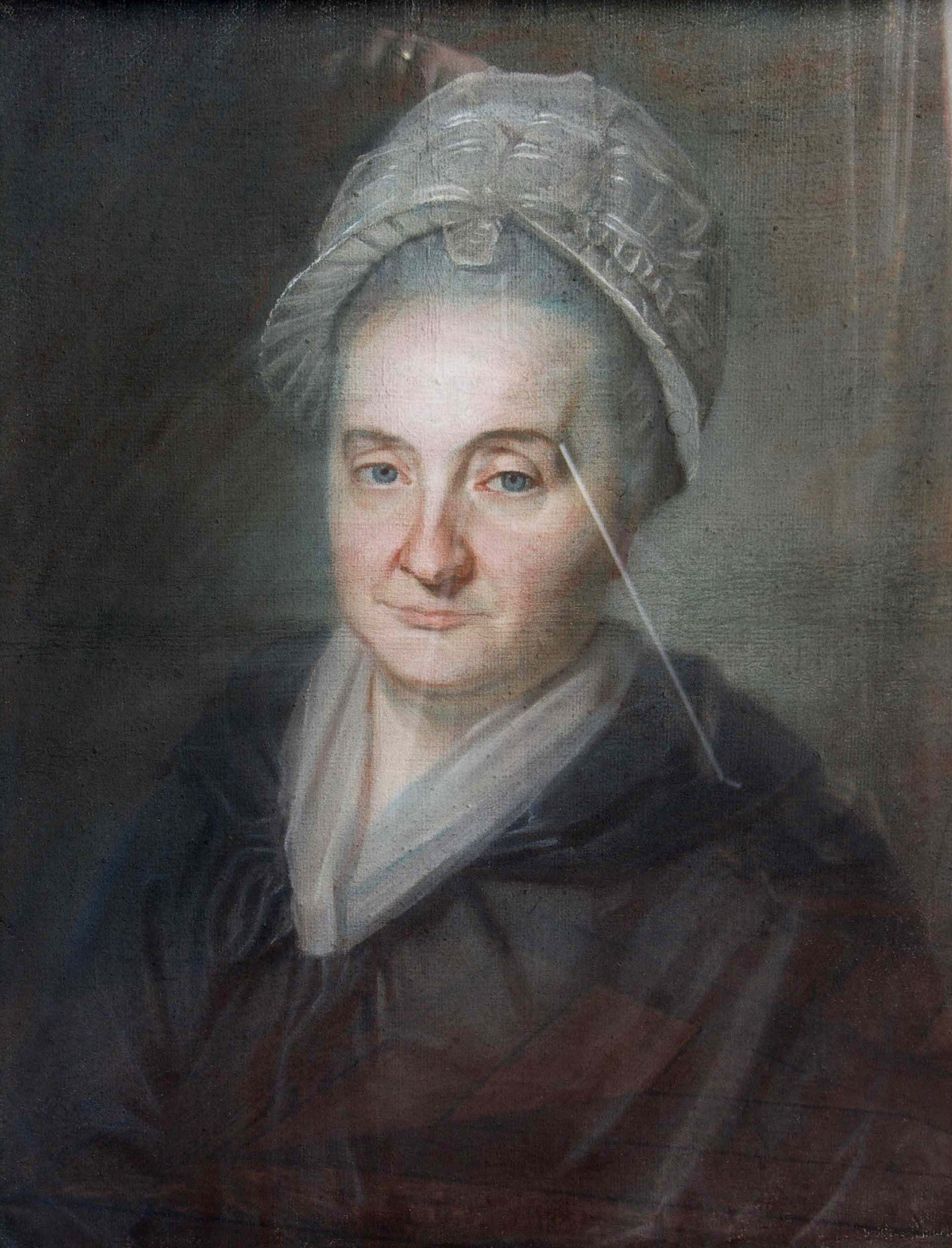 Portrait of Geneviève Louise Rouillé du Coudray (1717-1794) wife of Jean-Baptiste de Machault d'Arnouville (1701-1794)